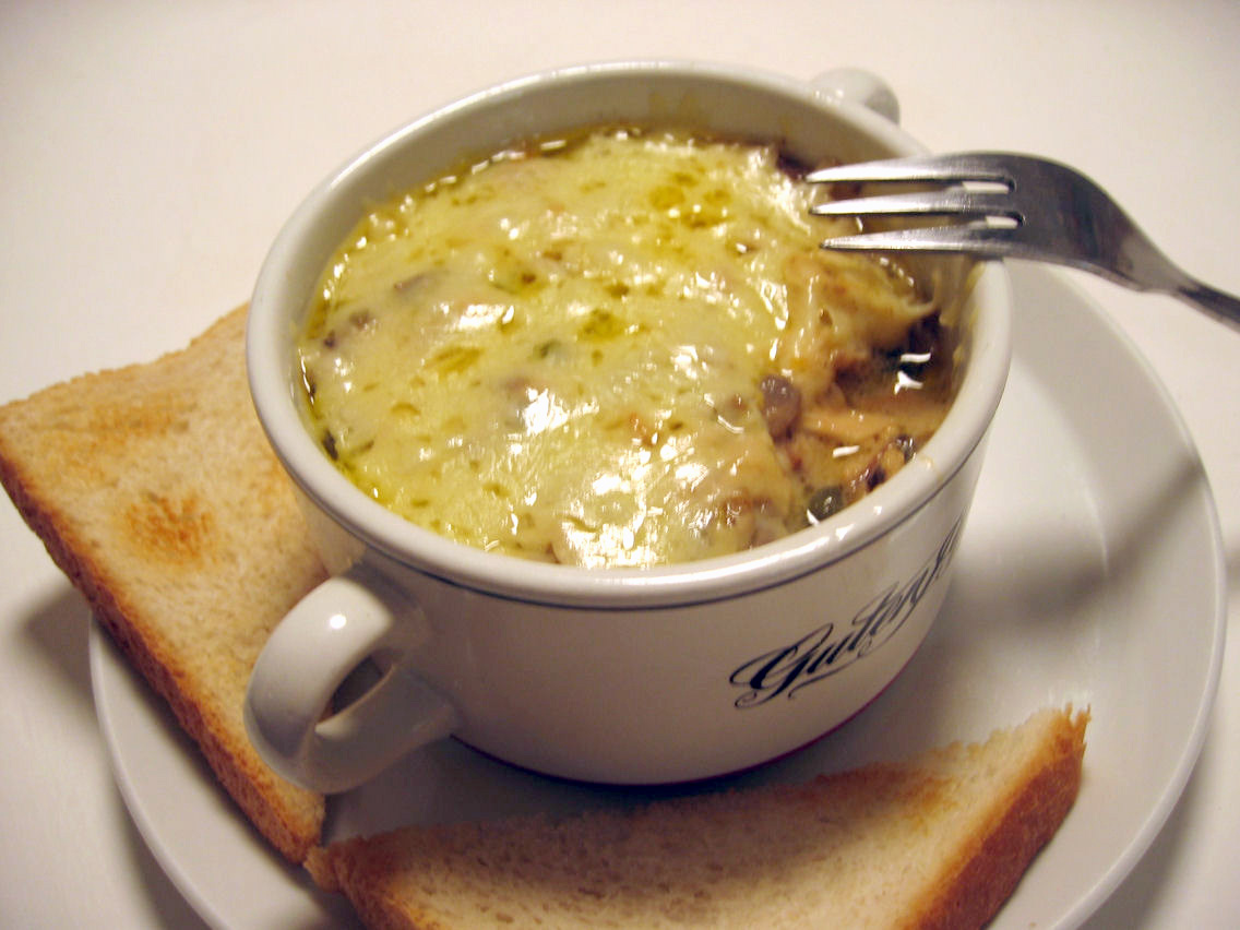 "Ragout fin", a French starter Cooked by myself